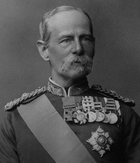 field marshall Lord Roberts